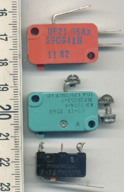 3 microswitches Scan of actual microswitches, upload by MH 16:17, 2004 Sep 4 (UTC)